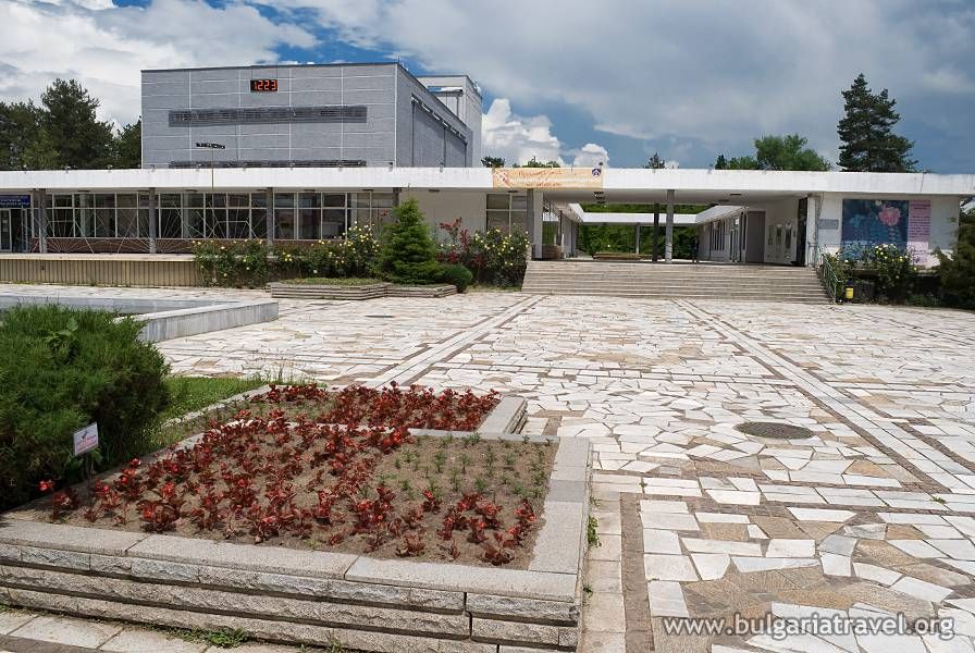 Pavel Banya Center. Here, seniors take walks and children often bike ride and play